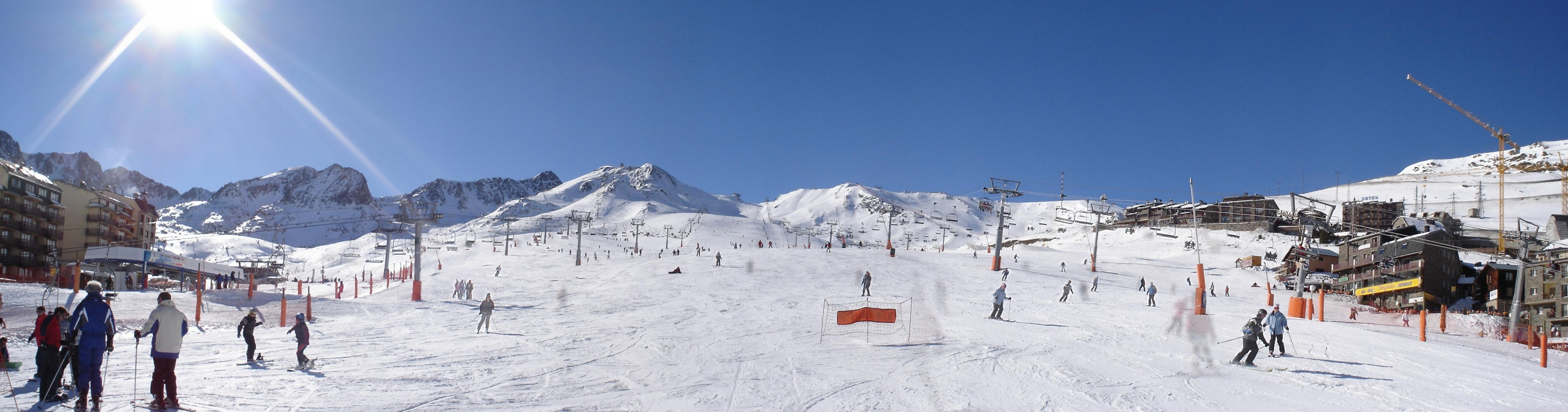 Panoramic view on the slopes above the village of Pas de la Casa, located in the Grand Valira ski area, Andorra.